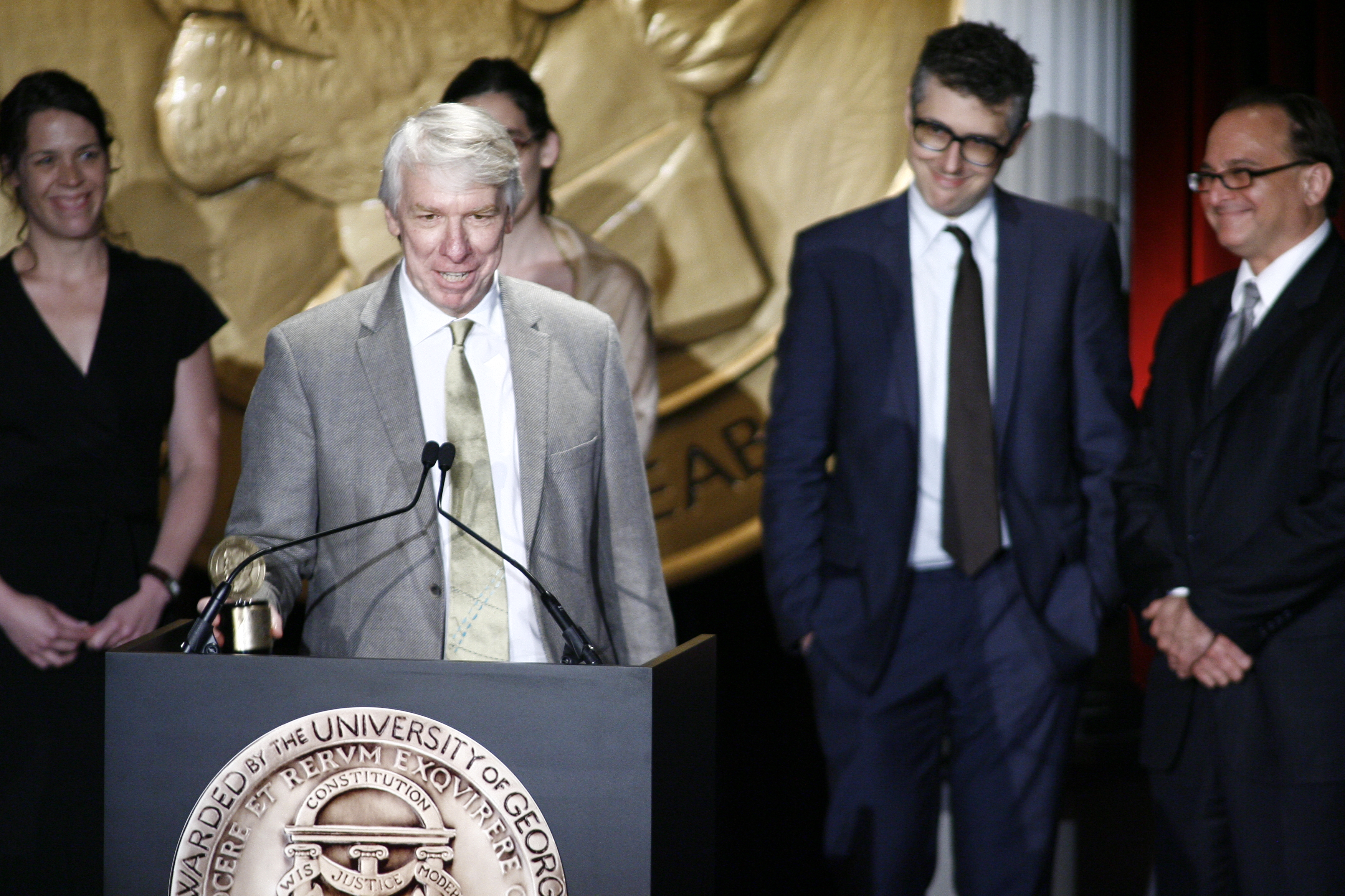 Julie Snyder, Jack Hitt, Ira Glass and Torey Malatia, 66th Annual Peabody Awards Luncheon Waldorf=Astoria Hotel New York, NY USA June 4th, 2007